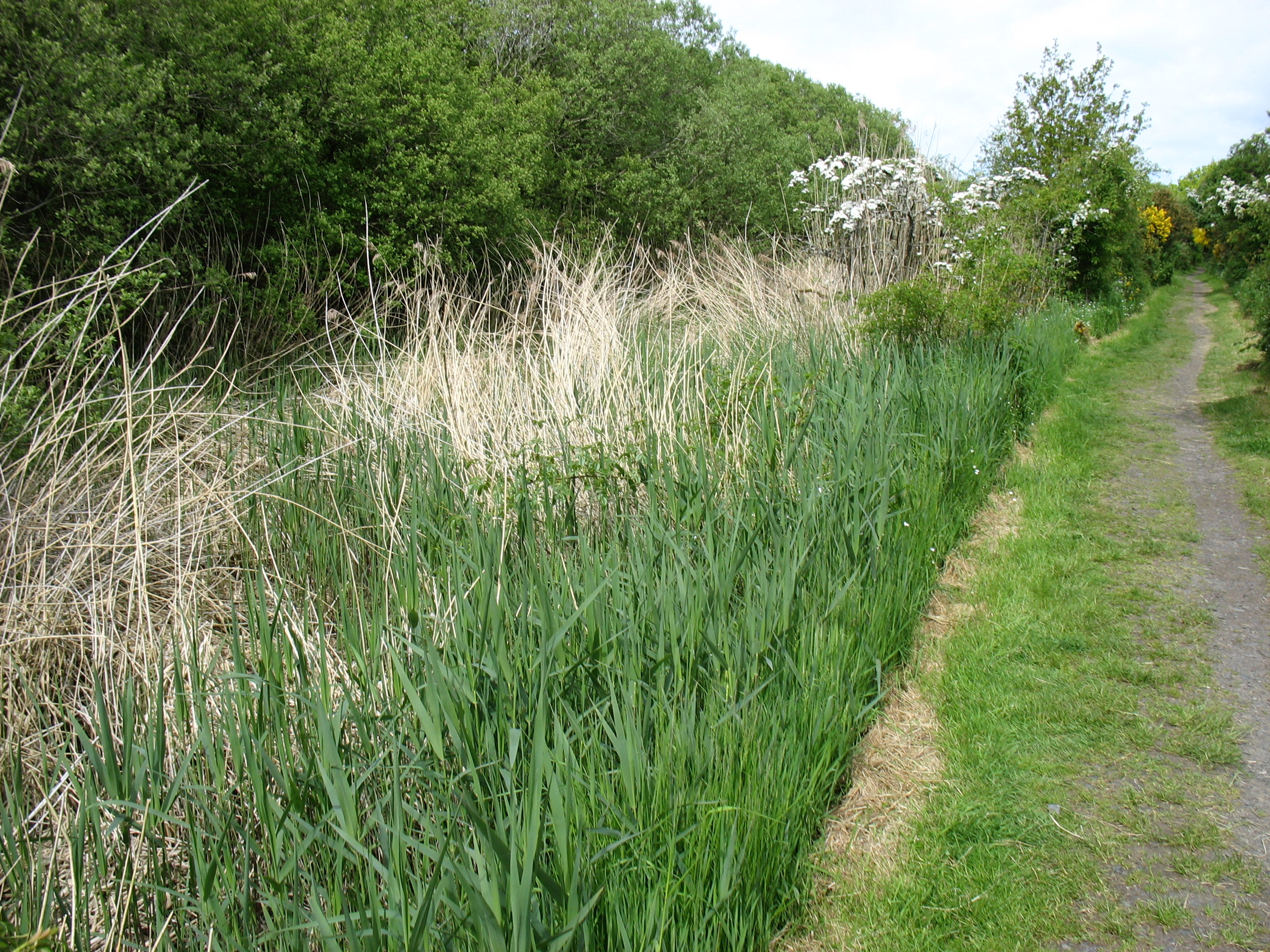 The Hadrian's Wall Path nearing Port Carlisle